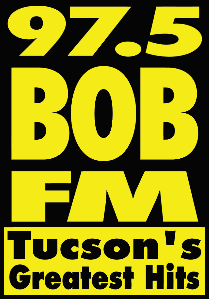 Former logo of the radio station KSZR under the BOB FM branding.